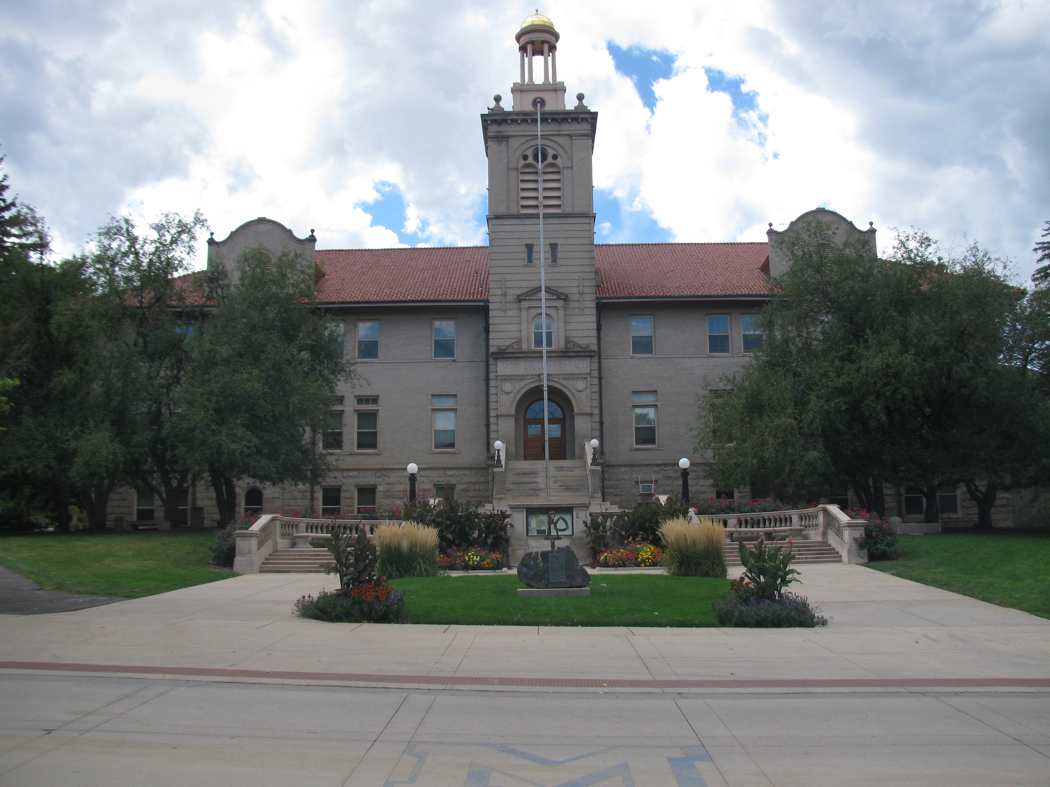 Guggenheim Hall, Colorado School of Mines, in Golden. Colorado, United States.